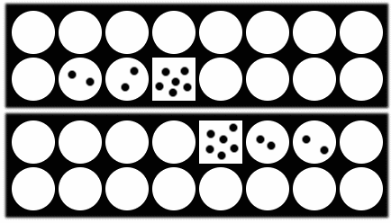 Bao setup. Note: This is not an orphan. It is used in Bao. – Quadell (talk) (sleuth) 20:08, Feb 7, 2005 (UTC)